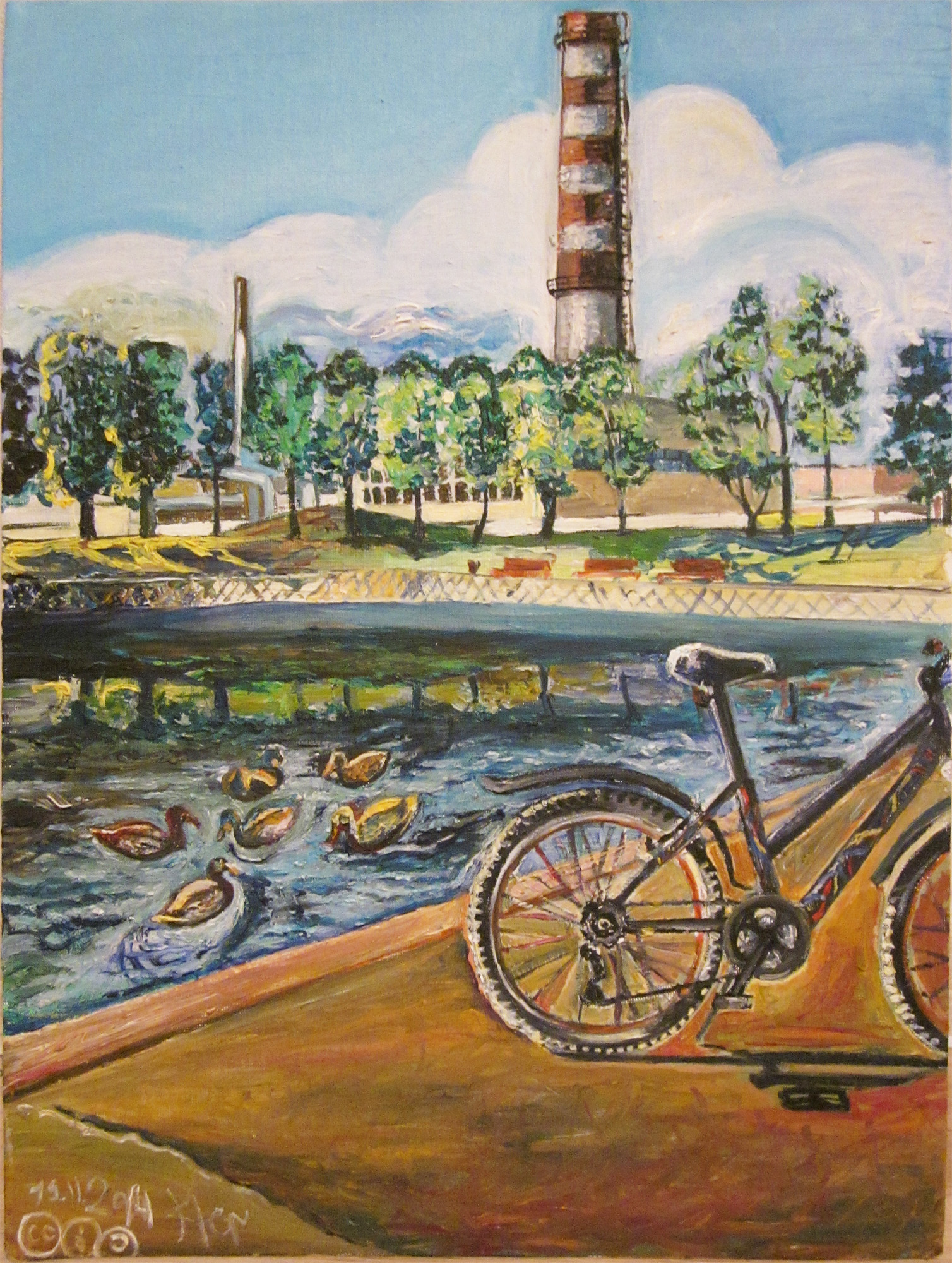 "nuclear romantic of grushevka", a painting by Sviatlana Jermakovič